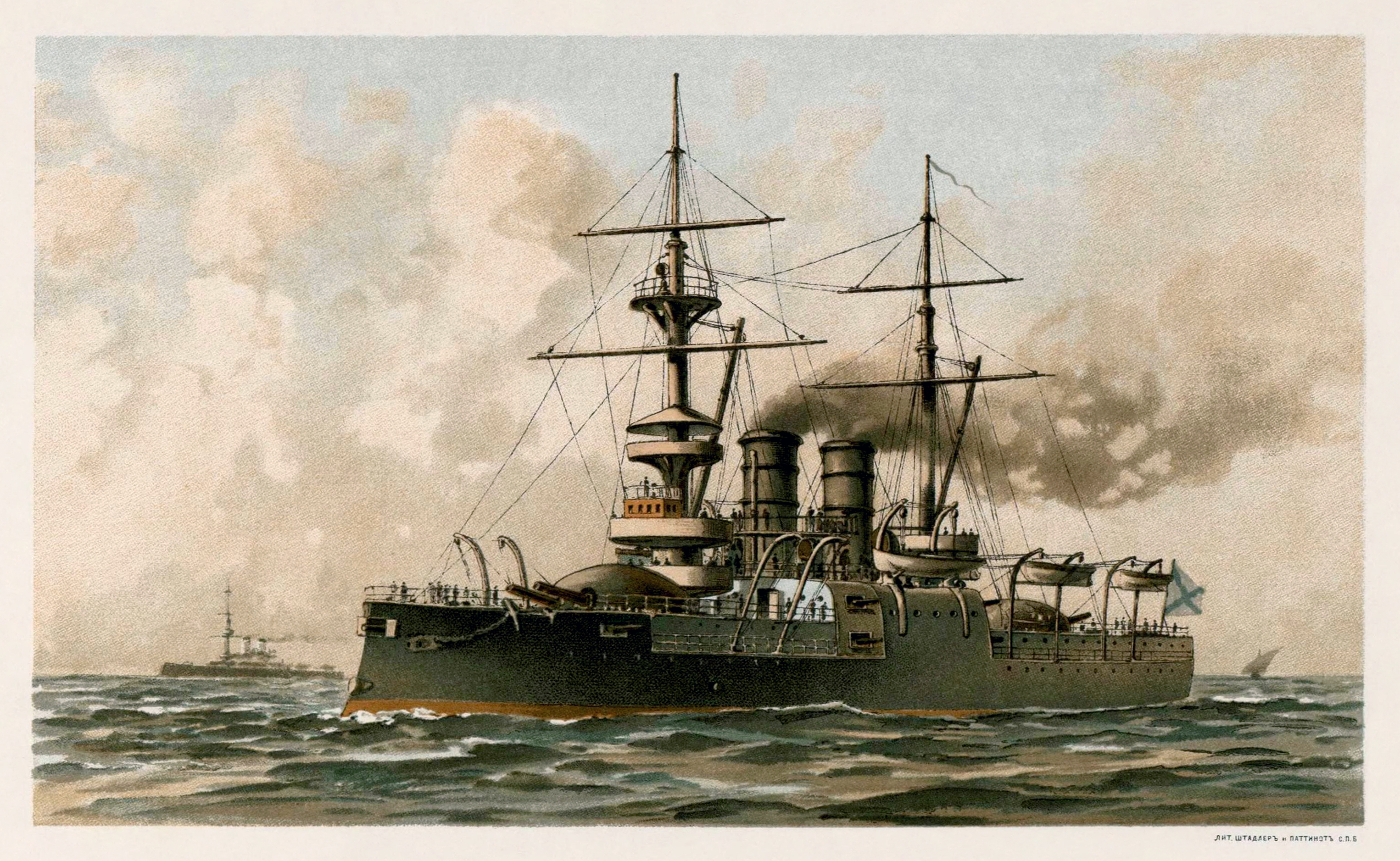 Dvenadsat Apostolov (ironclad warship)